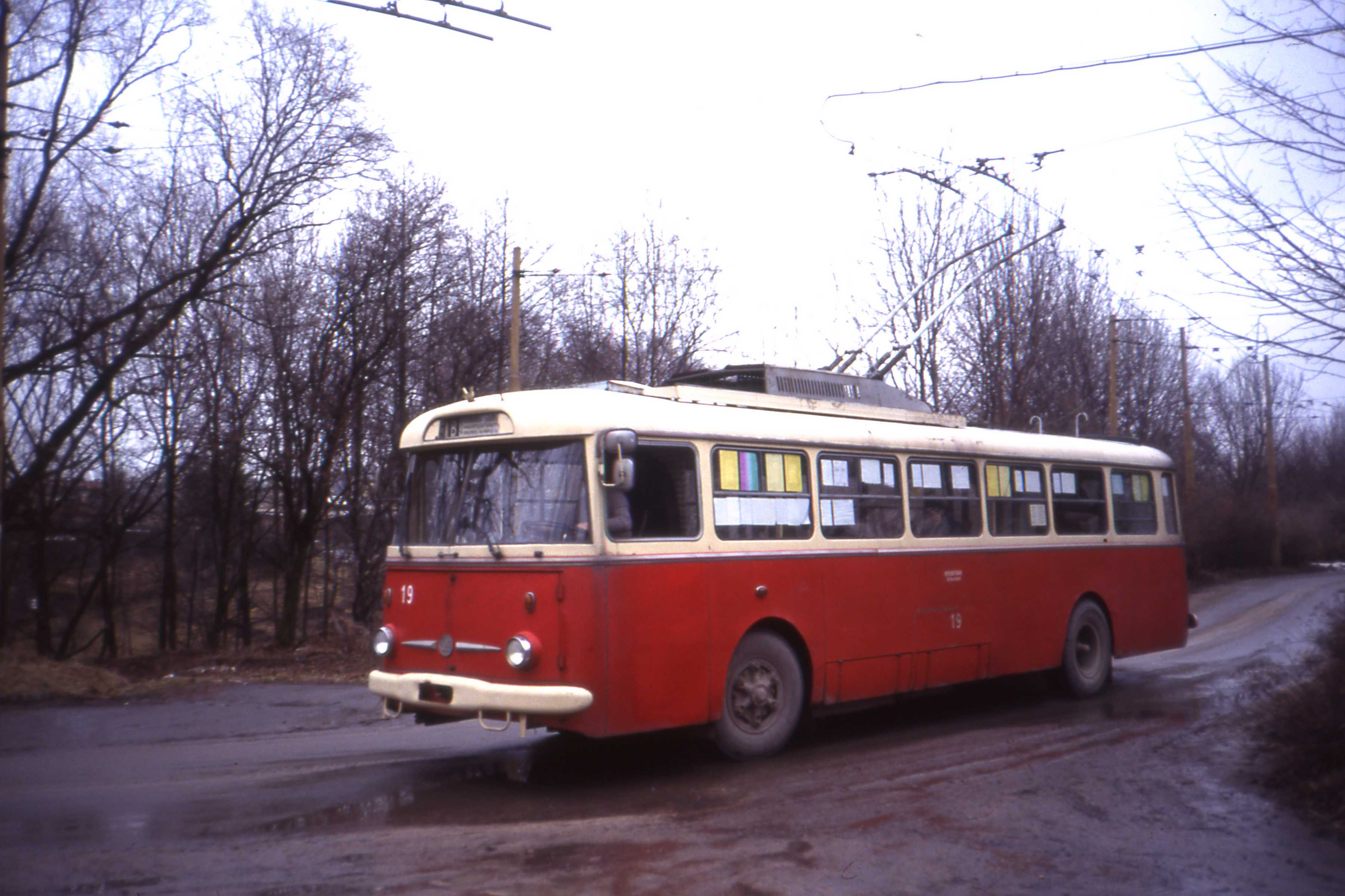 Škoda 9Tr trolleybus in Jihlava, Czech Republic